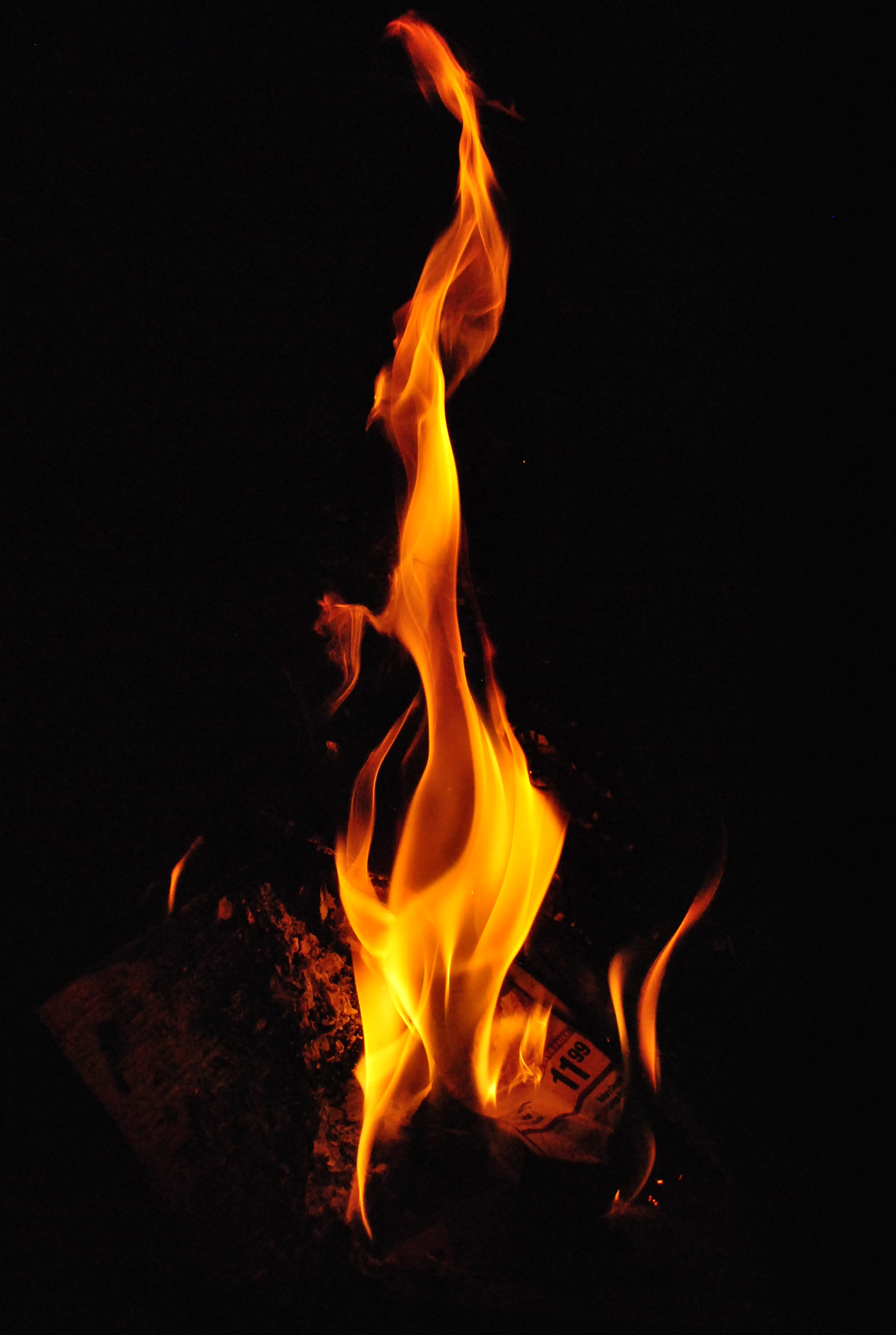 A picture of fire